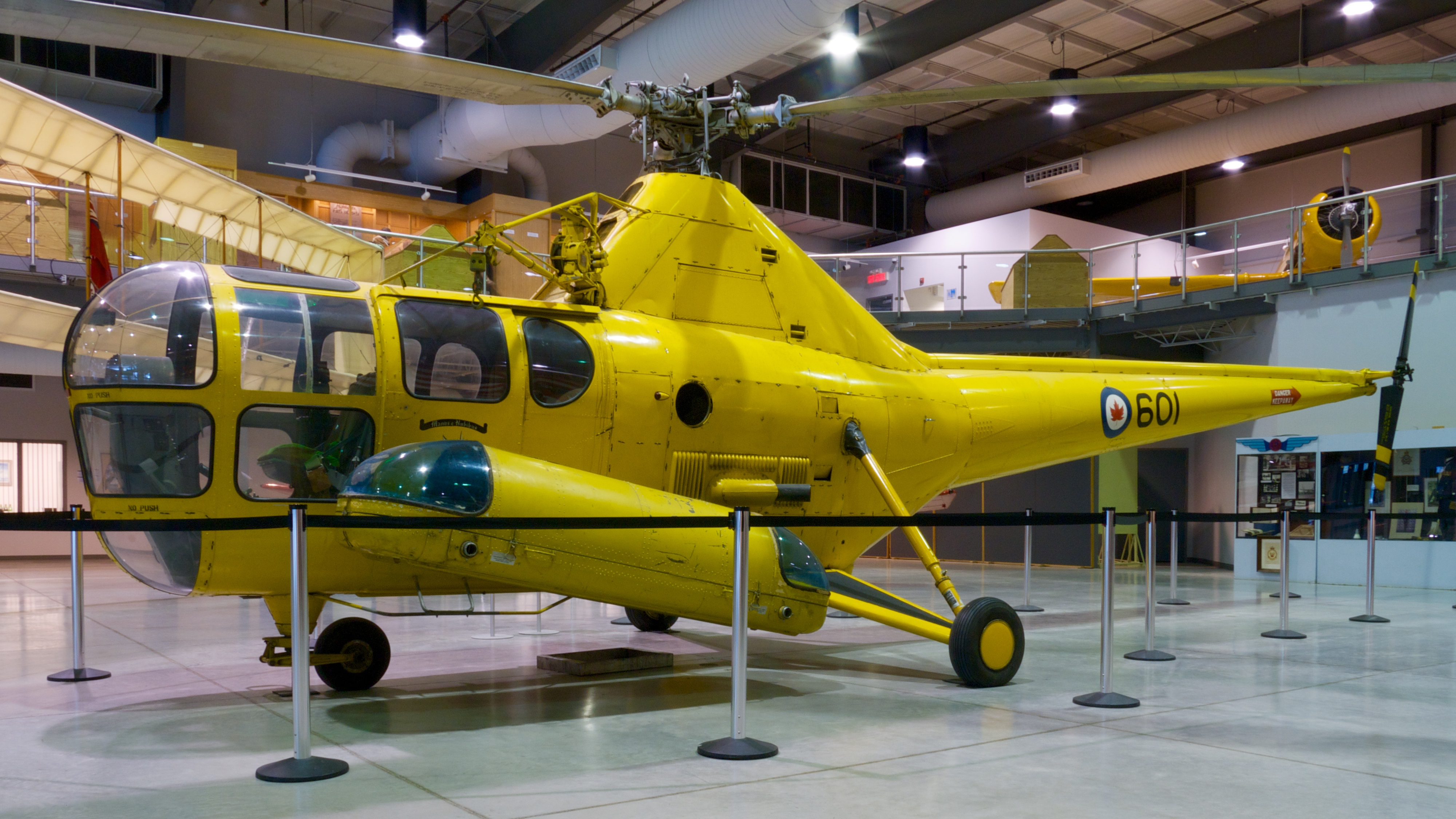 Sikorsky H-5 Dragonfly helicopter (serial# 9601) at the National Air Force Museum of Canada in Trenton, Ontario.